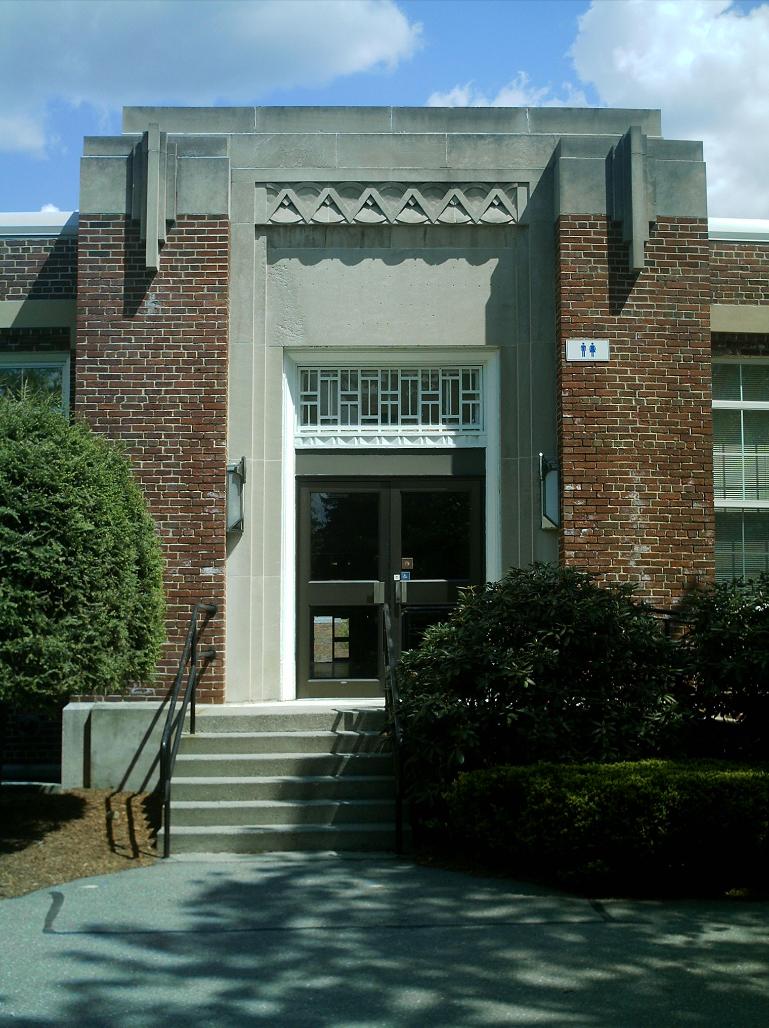 Entrance to the Anthony Bulding at Fitchburg State College